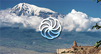 Khor Virap with Mount Ararat in the background, stylized with the Eternity symbol of Armenia.